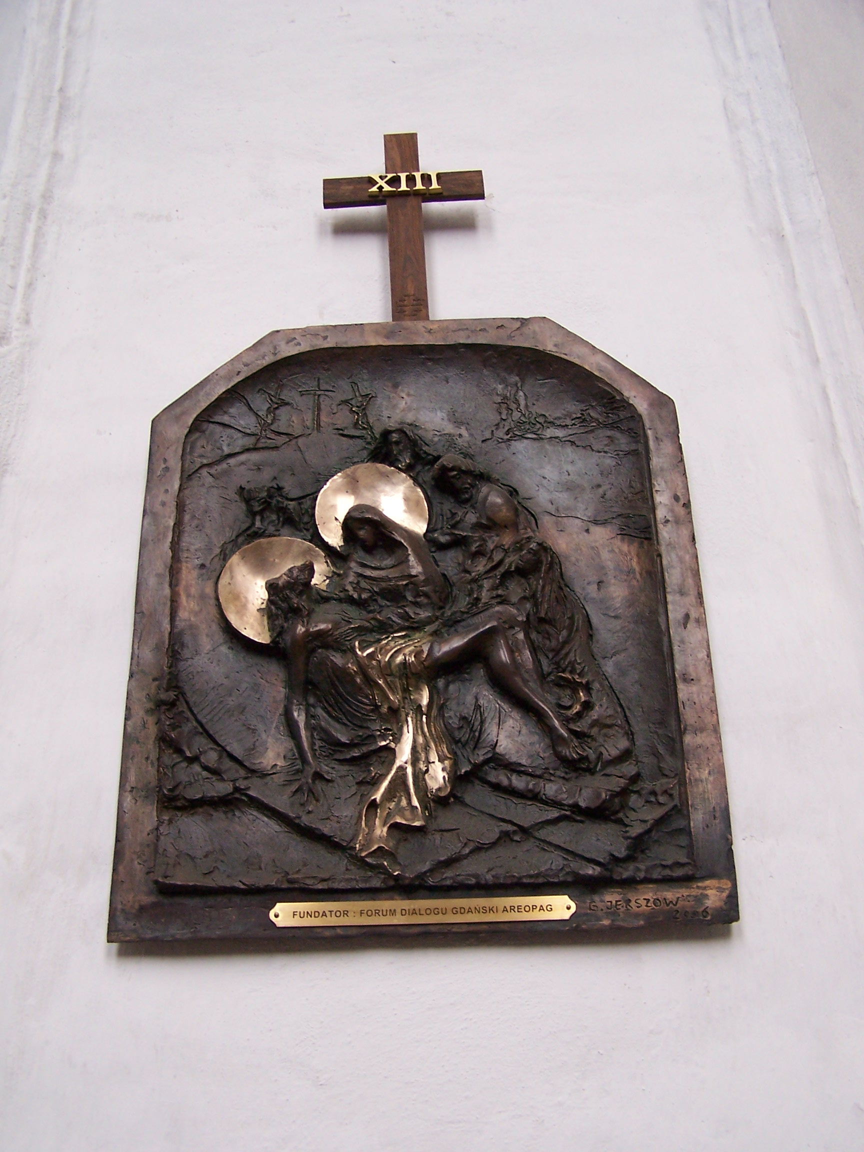 Sculpture by Giennadij Jerszow on the St. Mary's Church, Gdańsk